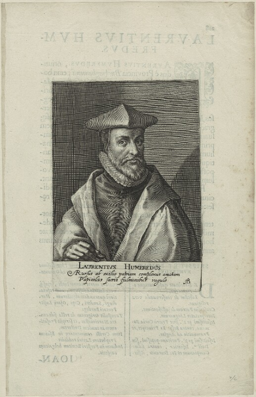 Laurence Humphrey possibly by Magdalena de Passe, possibly by Willem de Passe line engraving, 1620 6 1/4 in. x 4 3/8 in. (158 mm x 112 mm) plate size; 11 5/8 in. x 7 3/8 in. (296 mm x 188 mm) paper size Given by the daughter of compiler William Fleming MD, Mary Elizabeth Stopford (née Fleming), 1931 Reference Collection NPG D25226